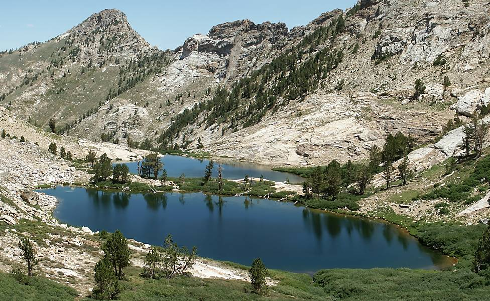 Cold Lakes, in the Ruby Mountains of Nevada, looking north from the flanks of Old-Man-of-the-Mountain.